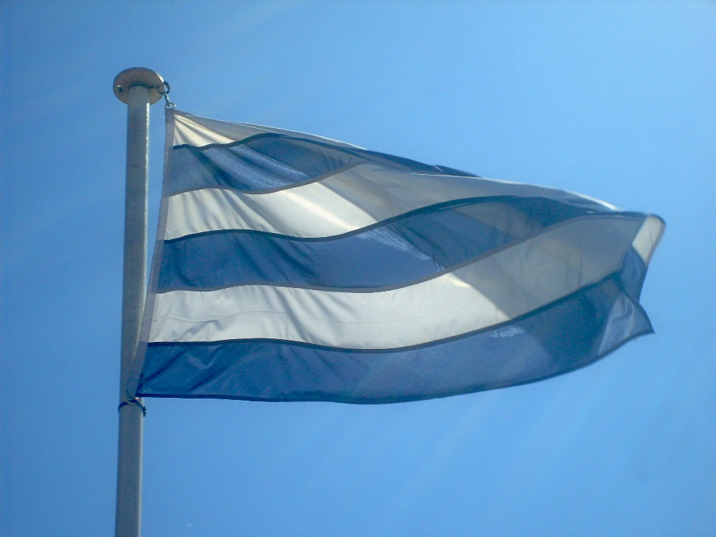 Dunkirk's flag